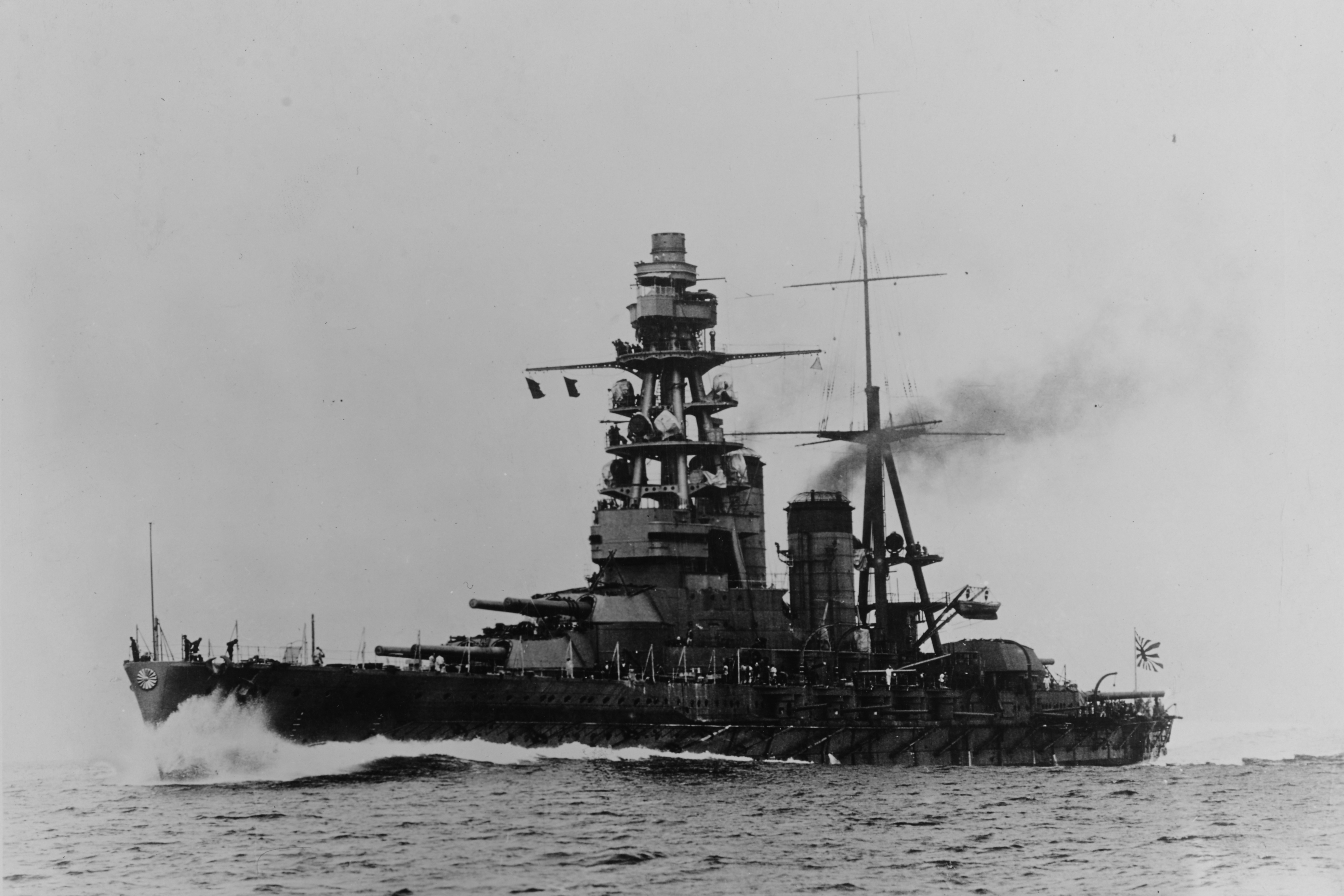 "Photographed at the time of her completion, during the early 1920s." This version cropped by uploader.